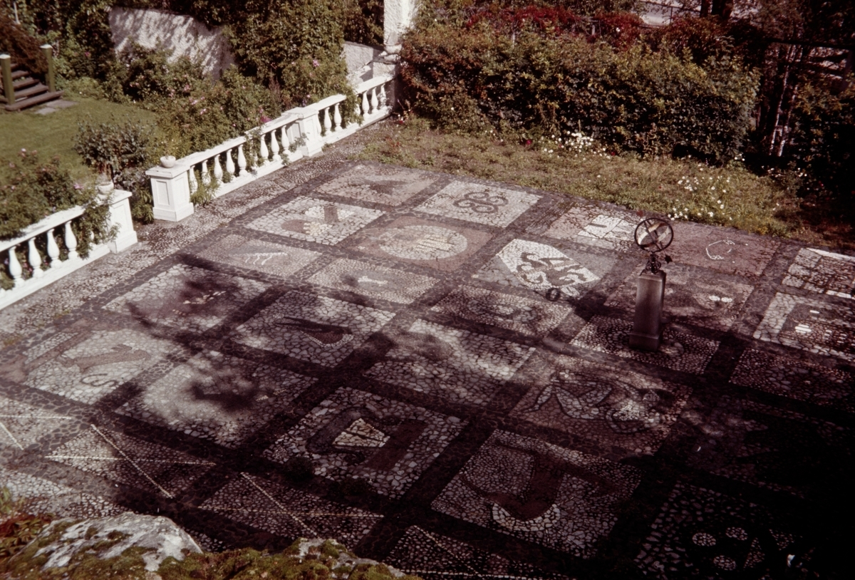 Depicted place: Christinedal